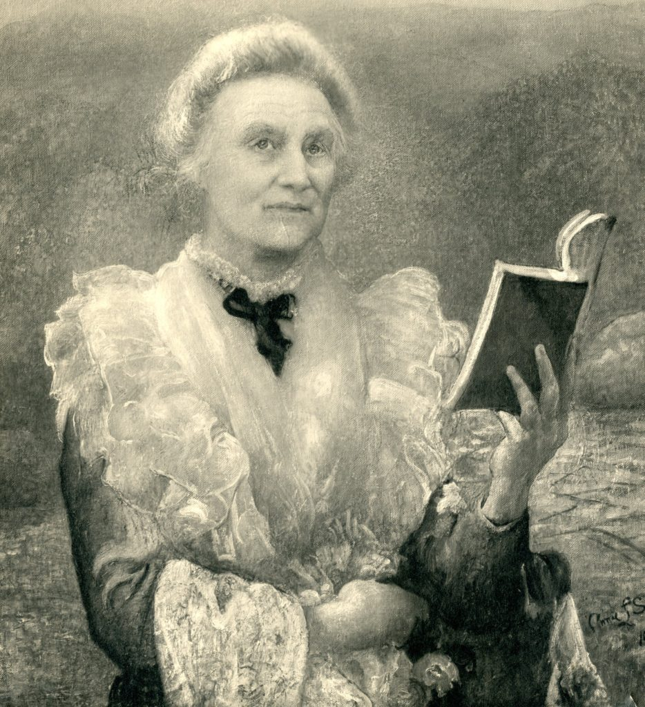 Alice Augusta Woods painted by Annie Swynnerton GUESS 1930